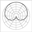 Thumb preview w. thick lines:logarithmic polar pattern of cardioid characteristics